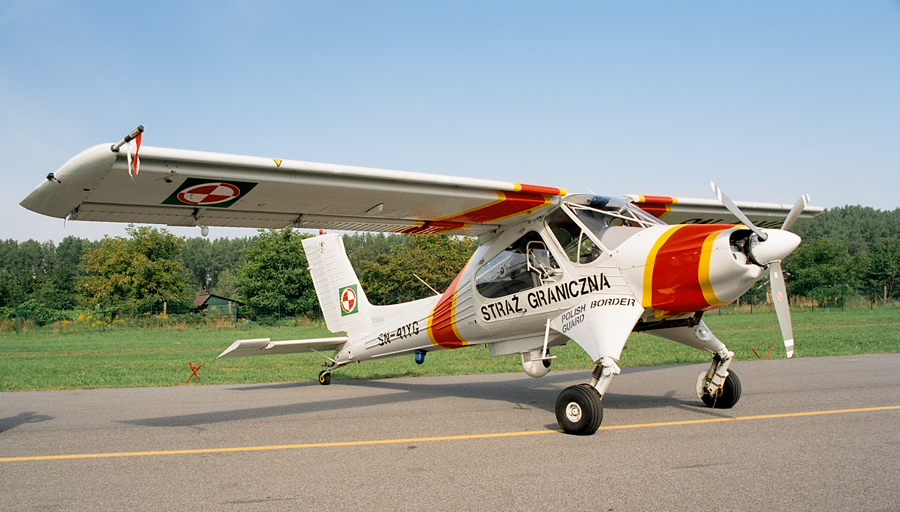 PZL-104M Wilga 2000 (Oriole 2000) of Polish Border Guard (registration number: SN-41YG) on static display at Radom Air Show 2005.